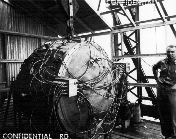 Government image of the Trinity test "gadget" explosive being assembled, with future Los Alamos National Laboratory director Norris Bradbury on the right.